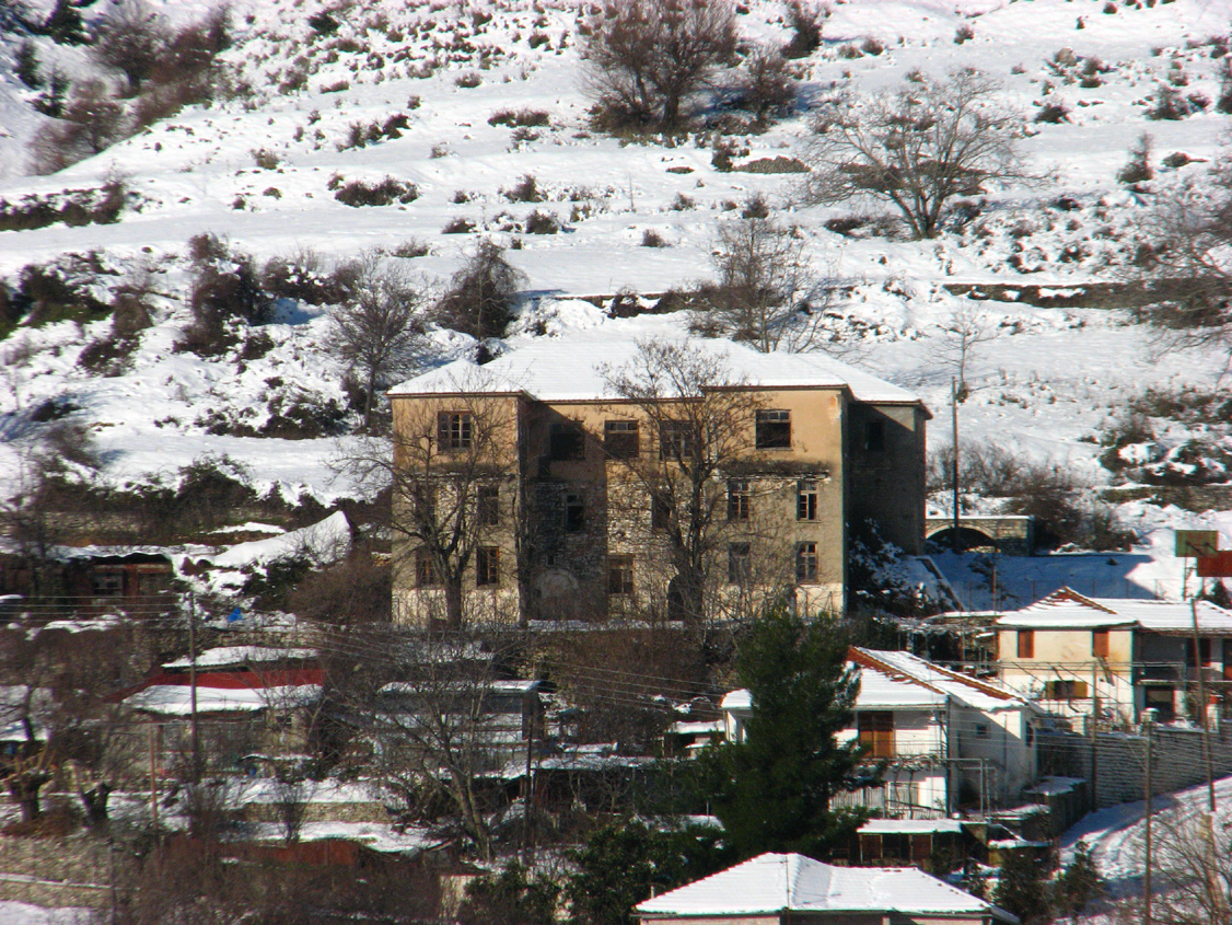 An Ottoman seraglio, at the foot of mount Buzova of old Voshtina (today's Pogoniani).